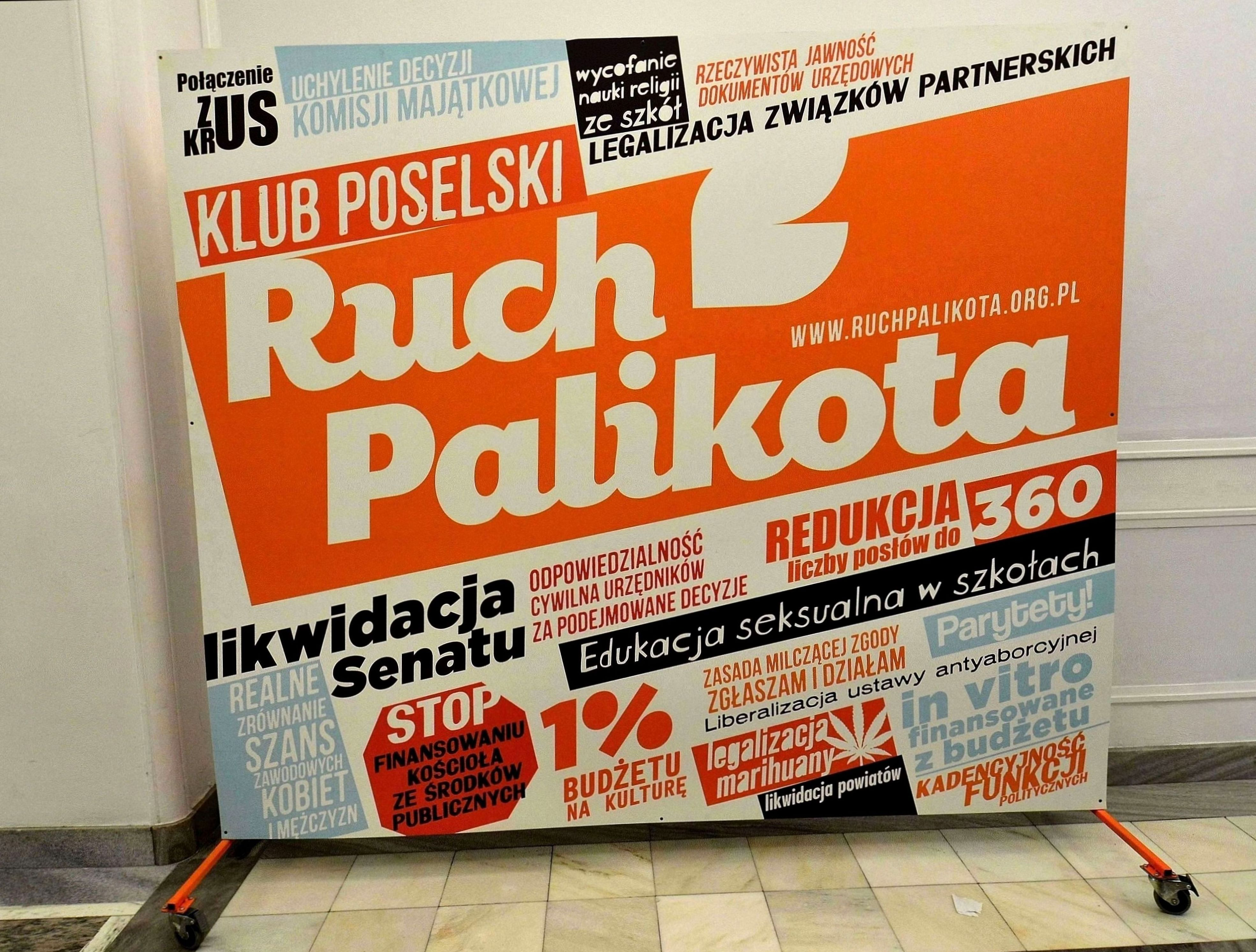 Information board near the office of Palikot Movement parliamentary club in the Sejm (Building C-D)